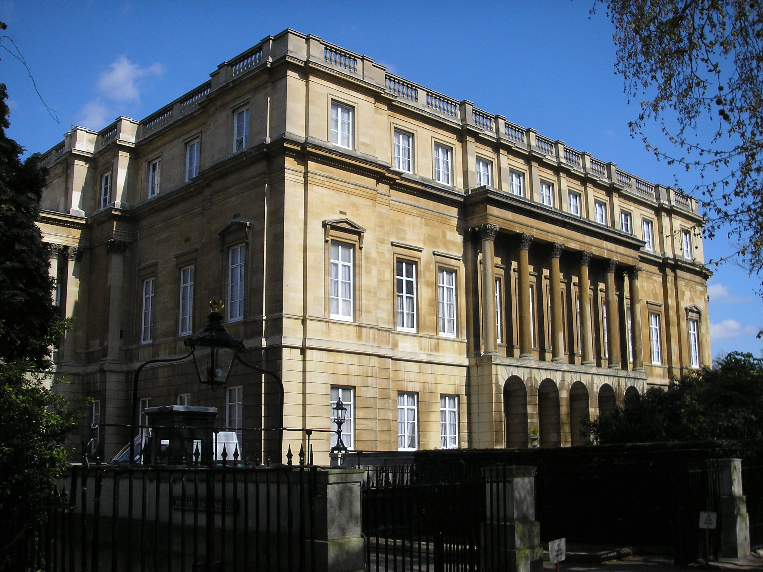 Lancaster House at The Mall in London.